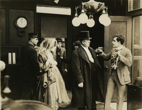 In a scene still for the 1915 silent drama Above Par, safecrackers are caught in the act by the newspaper reporter Dick Carson (played by W. E. Lawrence, holding the candlestick telephone) and his fiancée (Billie West). A police officer (probably played by Jack Dillon) and her father Mr. Berry (W. H. Brown in a top hat) have also arrived.